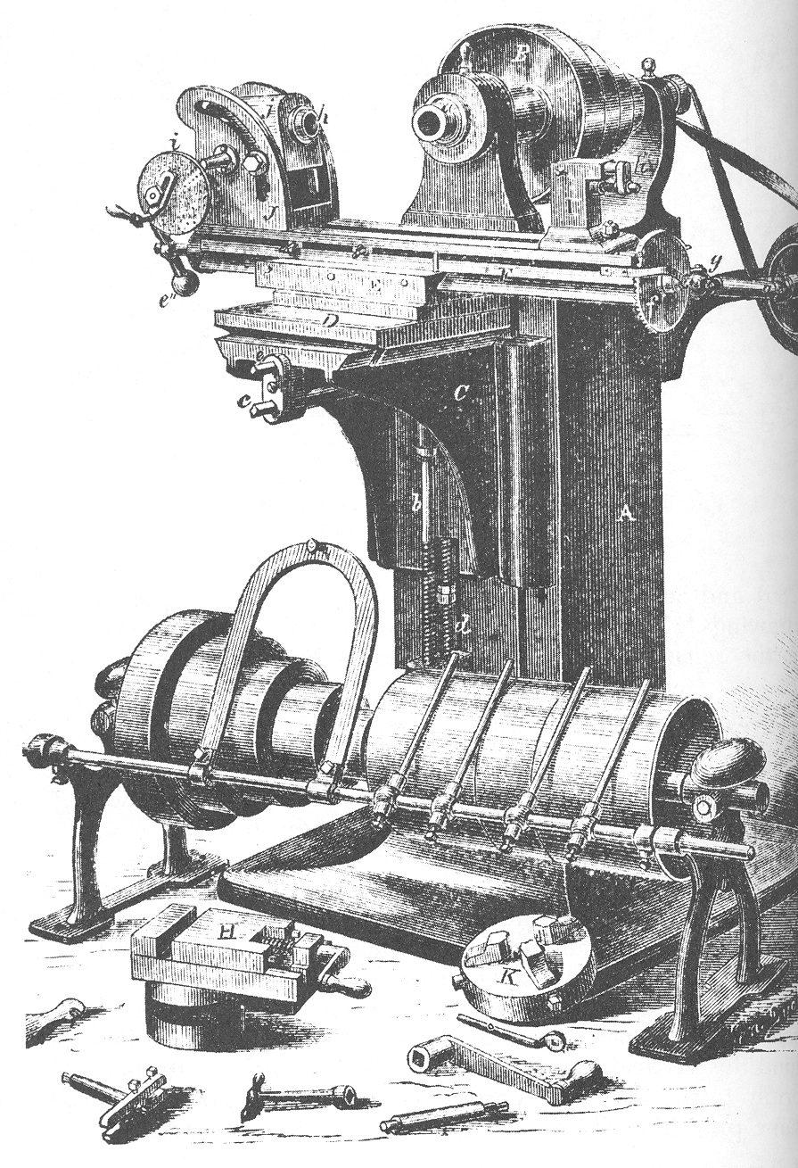 Brown & Sharpe's groundbreaking universal milling machine, 1861. Displayed at the foot of the machine are the countershaft for the belt drive (which in operation would be above or behind the machine); a 3-jaw chuck and a vise (for mounting on the indexing head or on the table); and other miscellaneous tooling. Drawing reproduced in Woodbury 1972 [1960] from the original in the journal Scientific American, 1862-12-27. Public domain in U.S. (age).